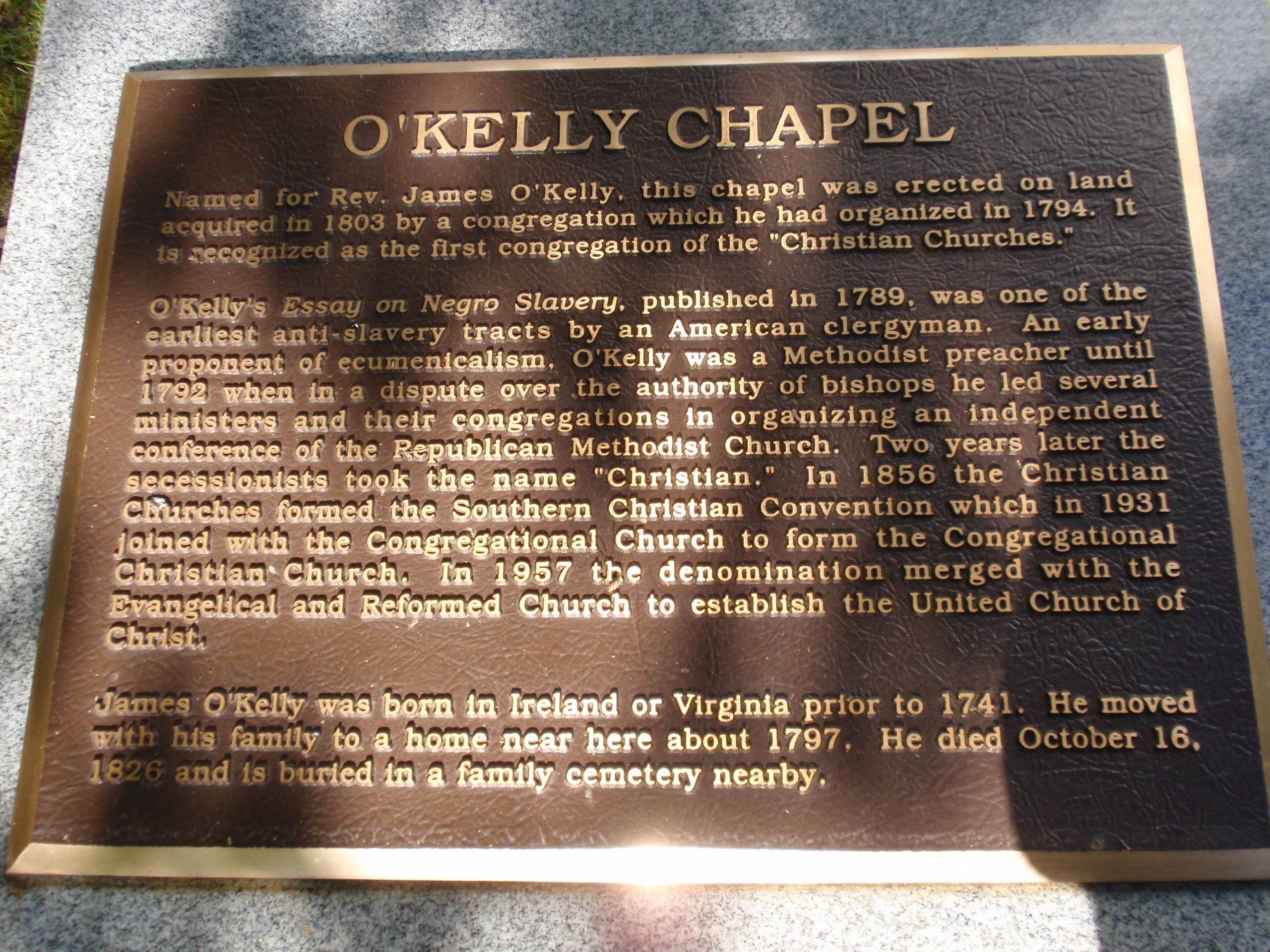 This marker was erected by the Southern Conference of the United Church of Christ at the entrance of the current (2016) chapel.